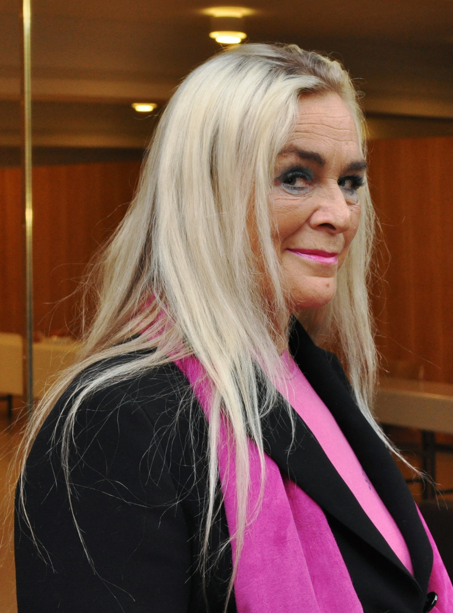 Miina Äkkijyrkkä, Finnish artist, Porthania, University of Helsinki, February 2009.